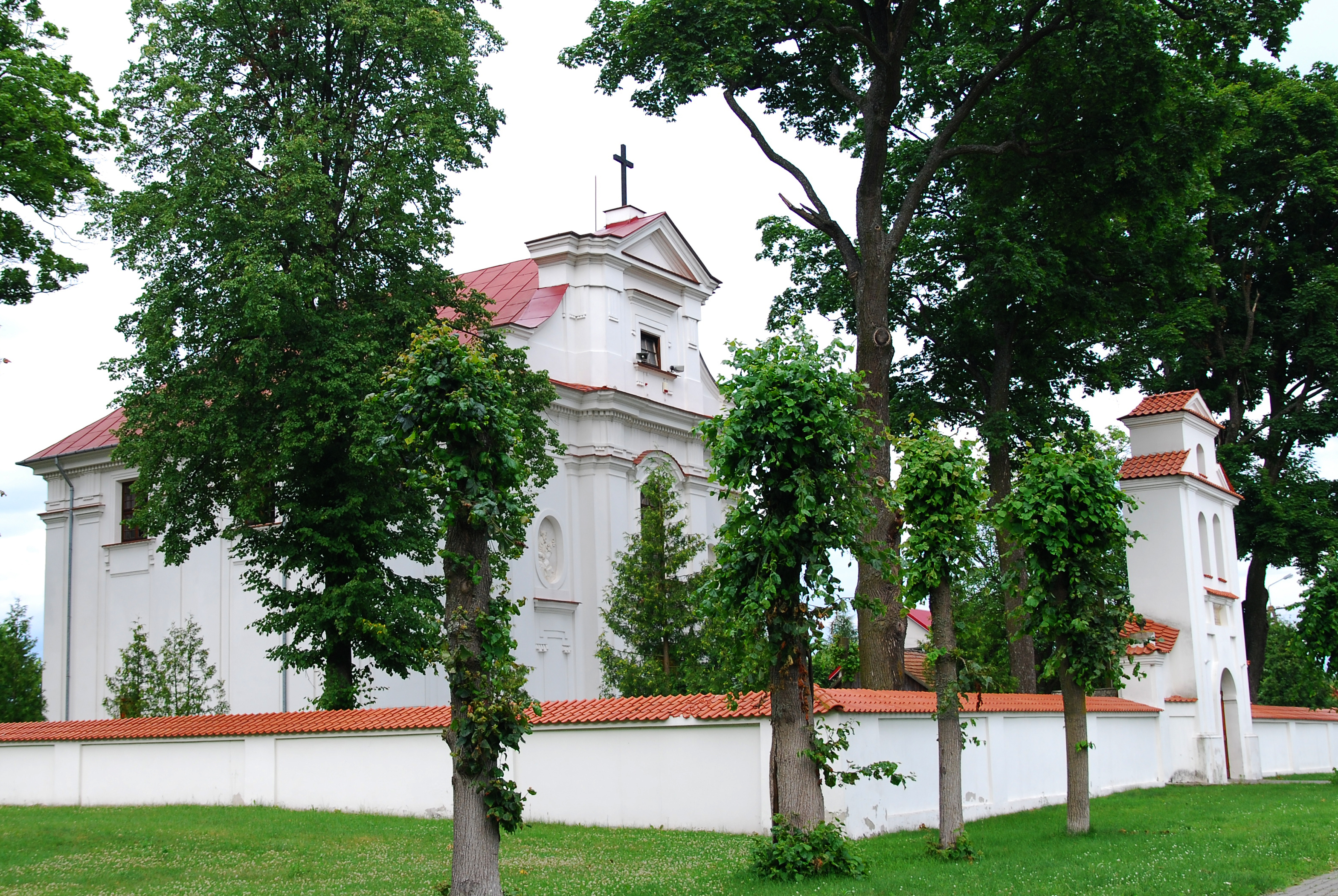 This photo from Podlaskie Voievodeship was taken during Polish Wikiexpedition 2009 set up by Wikimedia Polska Association. The making of this document was supported by Wikimedia Polska. Kosciół podwezwamniem Stanislawa Biskupa i Męczennika w Niemirowie